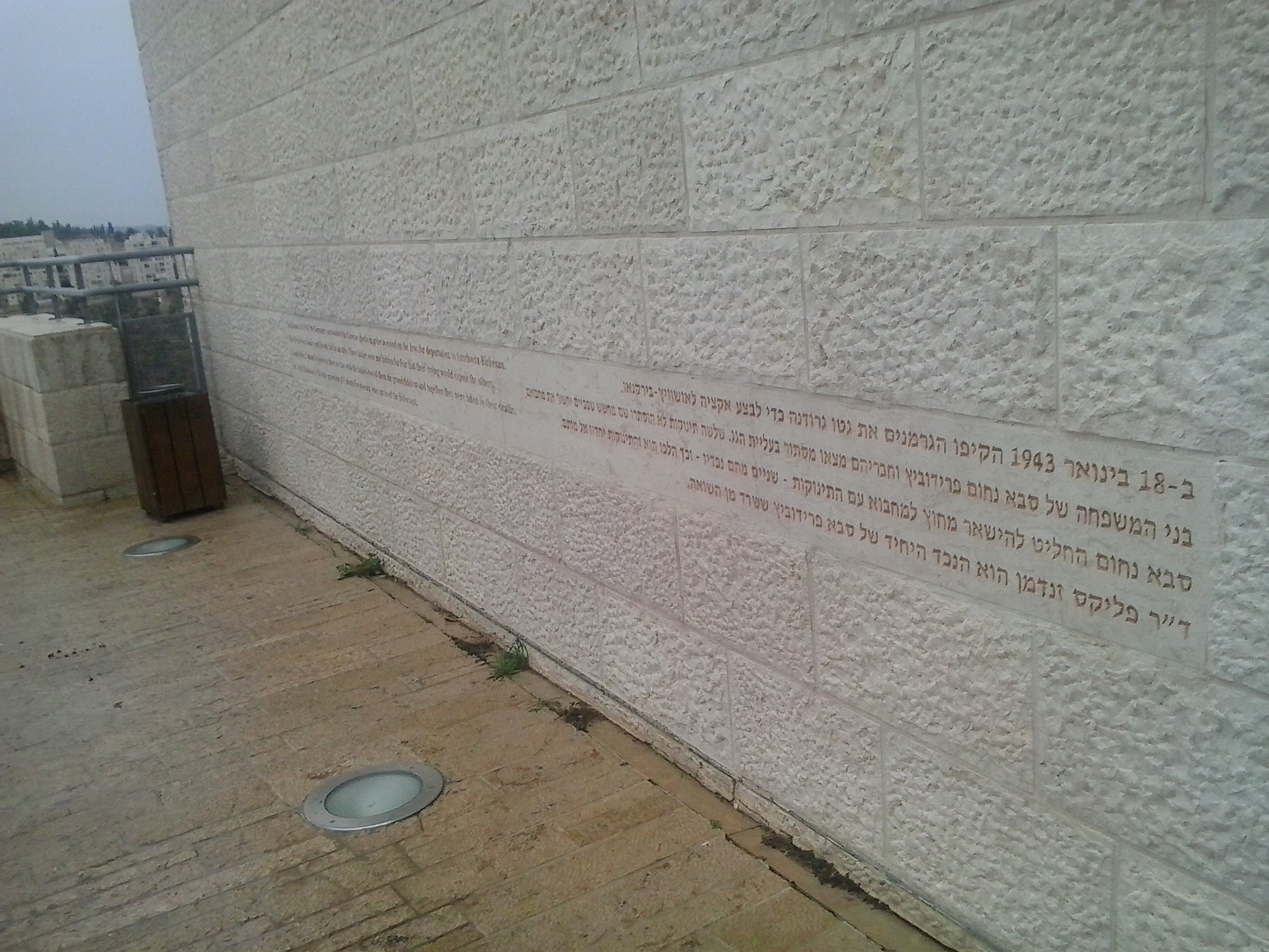 Family Square at Yad Vashem, Jerusalem, 2015